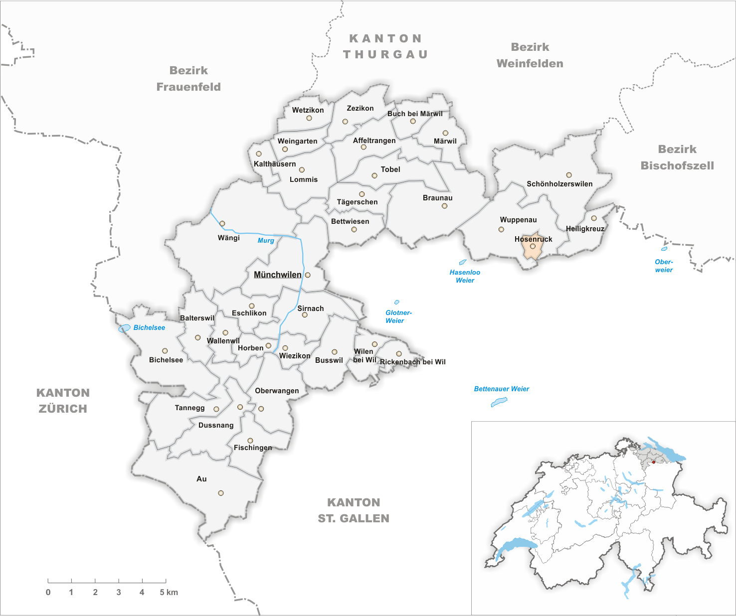 Municipality Hosenruck